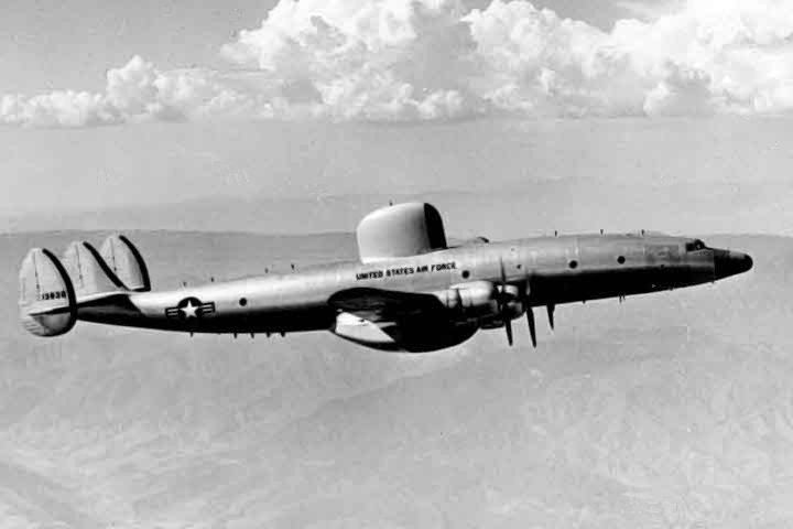 The first U.S. Air Force Lockheed RC-121C Warning Star (s/n 51-3836, c/n 1049B-4112) in flight in 1955. Originally ordered by the U.S. Navy as a WV-2B, it was instead delivered directly to the USAF as an RC-121C. All ten RC-121Cs were redesignated EC-121C in 1962. Later this aircraft was converted into a TC-121C training aircraft, before being retired to the MASDC in 1968 and later it was broken up.